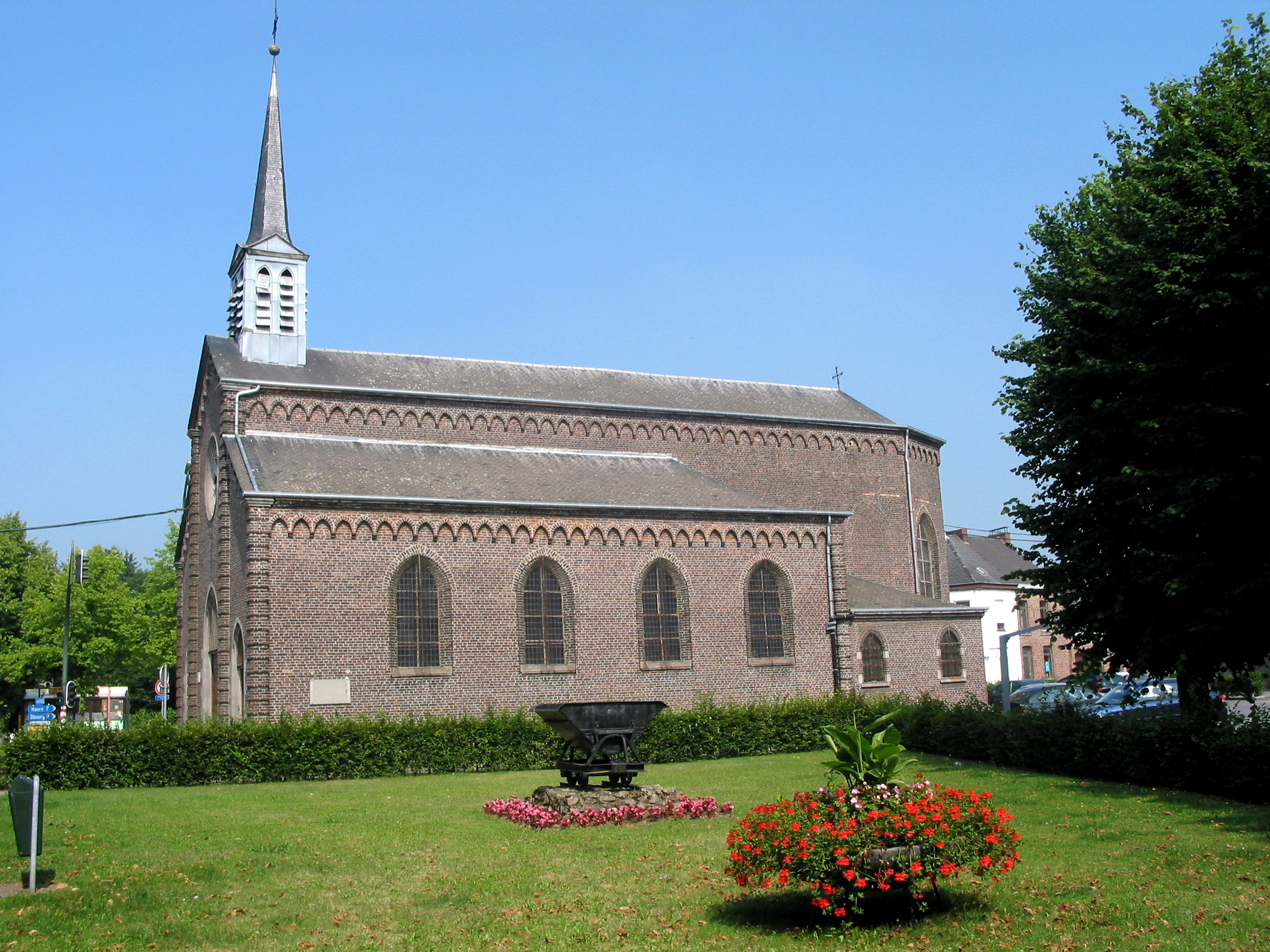 Maisières (Belgium), the Saint Martin's church (1852).